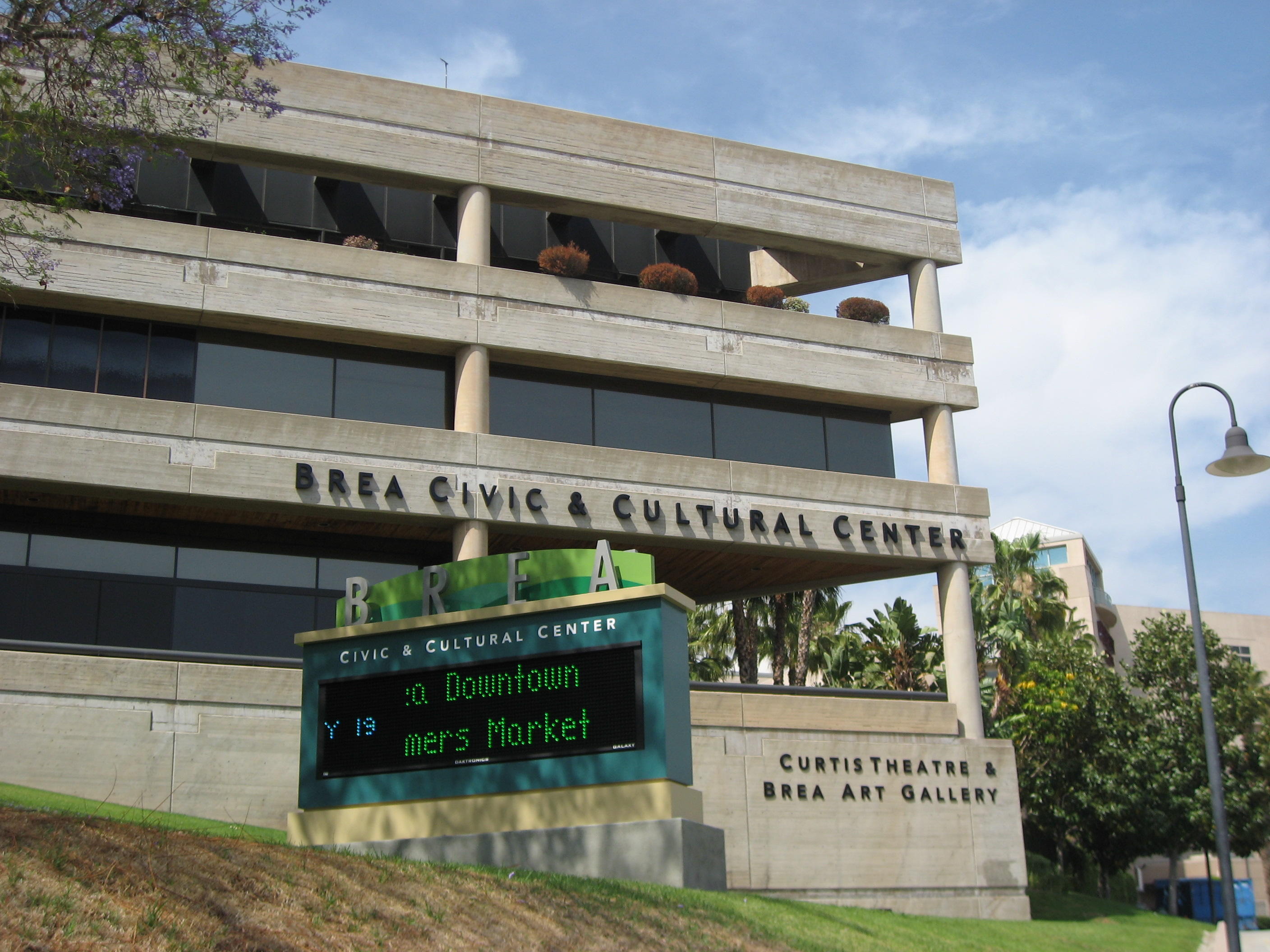 I took this photo.